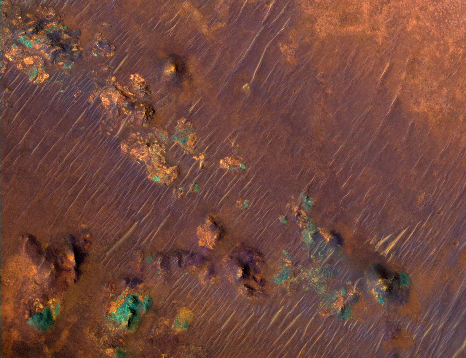 Color Image of Nili Fossae Trough, a Candidate MSL Landing Site